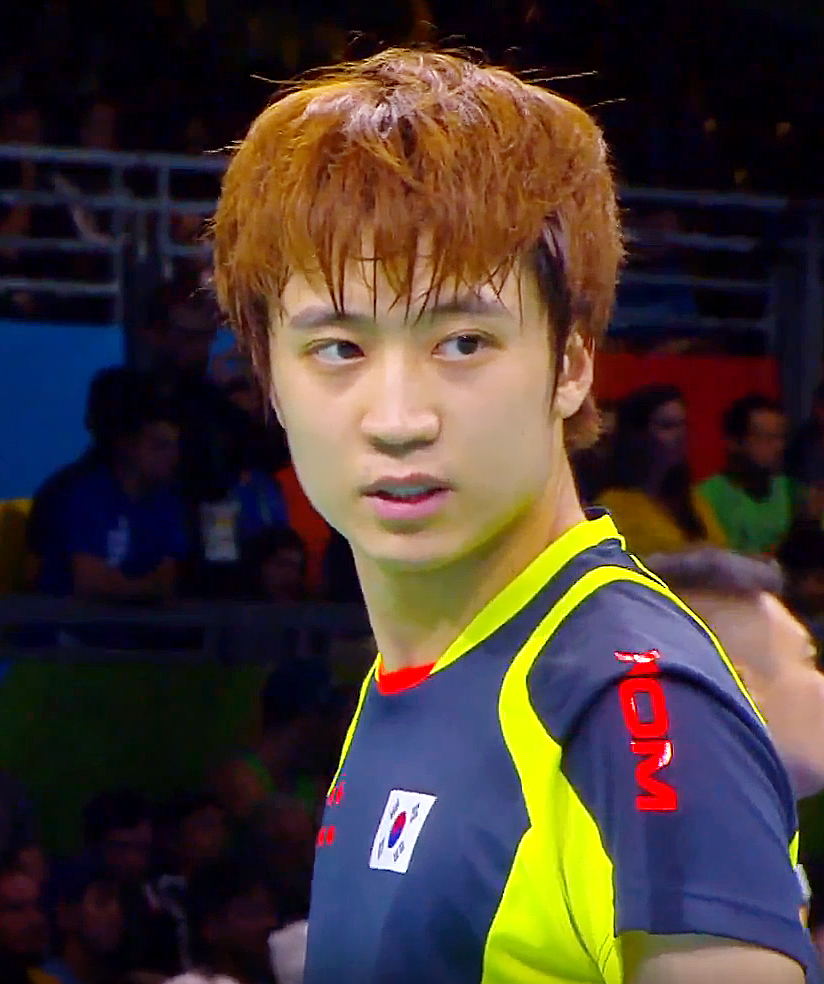 2016 Rio Olympic ping-pong JeongYoungsik 조선말: 2016 리우 올림픽의 정영식